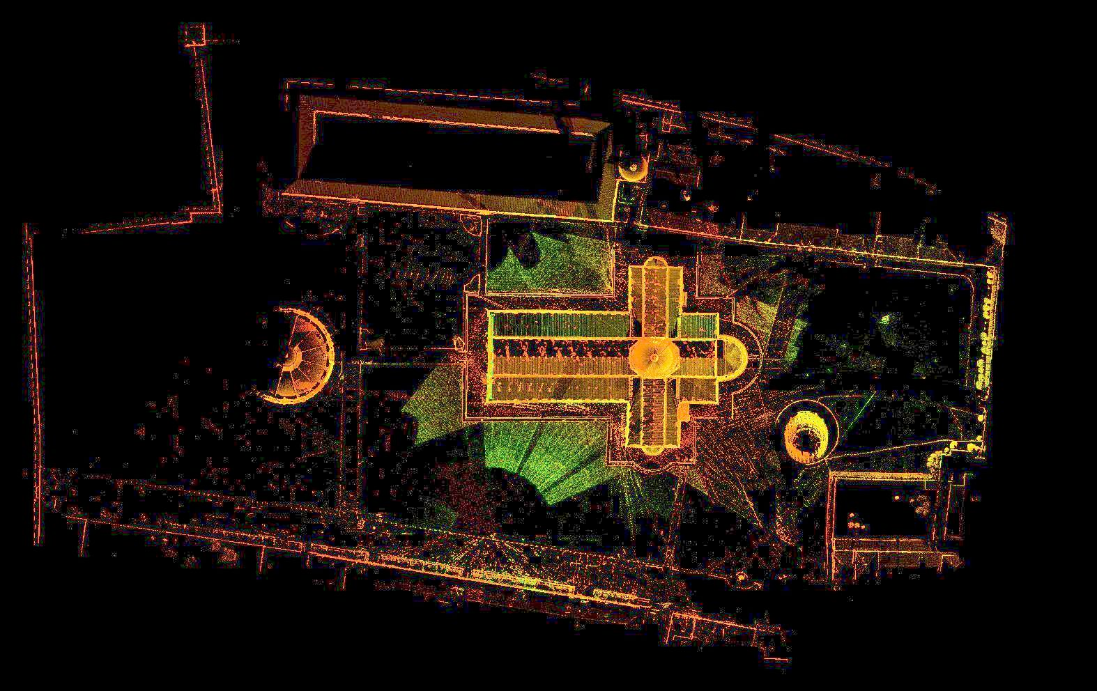 Aerial perspective of the Piazza del Duomo, created from laser scan data. Though nominally called Romanesque, the Cathedral of Pisa (1064-1110) exhibits aspects of Roman, Islamic, Byzantine, and trans-Alpine architectural influence. Stylistically it is without precedent. Inscriptions on its white marble facade describe the history of the cathedral and the circumstances of its construction. The cathedral is cruciform in plan and is situated on an east-west axis with the primary apse facing east. The plan is more Early Christian, or even Roman, than Romanesque in character. Each arm of the transept has its own apse, like two small basilicas attached to a larger one. Recycled classical columns were used to support the interior.